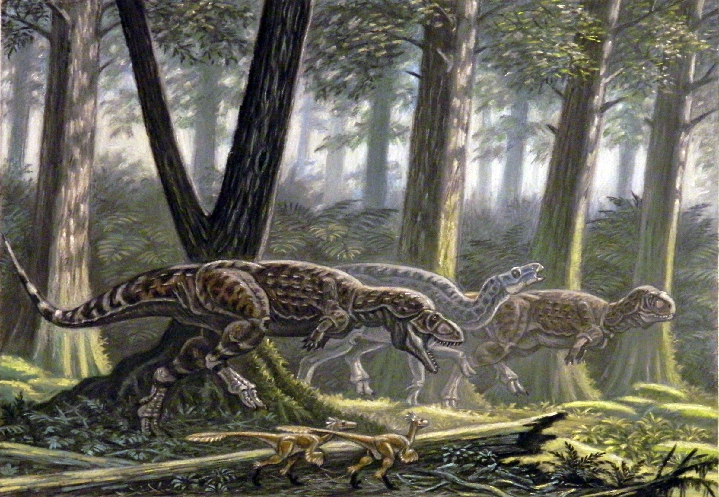 Two Tarascosaurus chasing an iguanodont, with dromaeosaurs in the foreground.